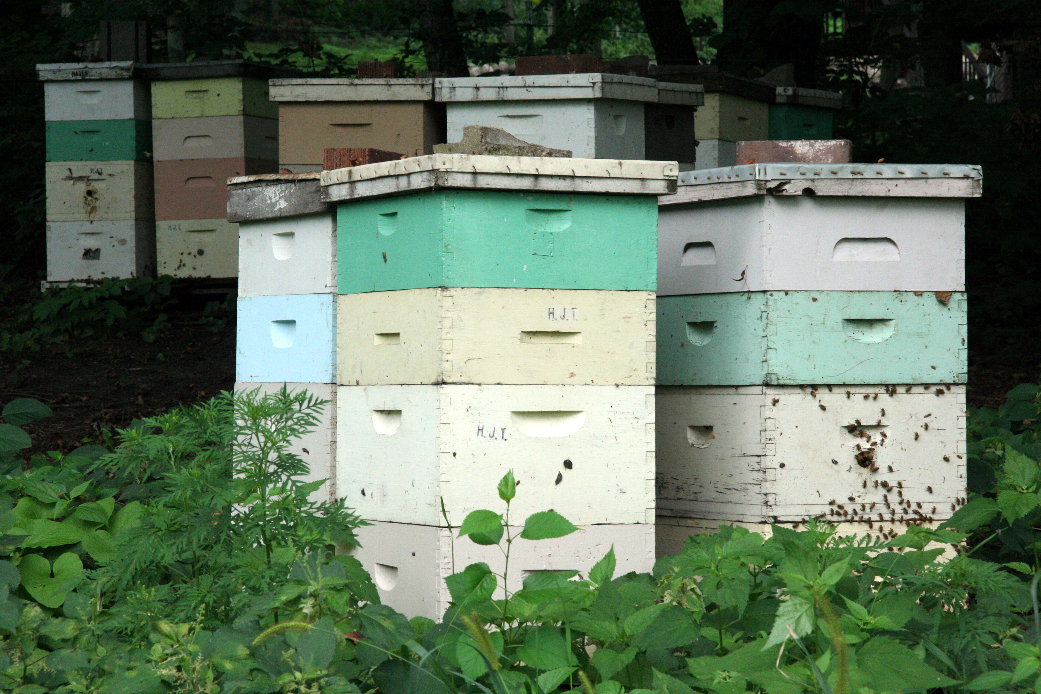 Pastel painted wooden beehives with active honeybees near Mankato, Minnesota